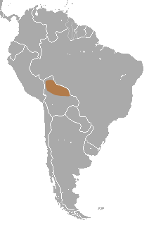 Unduavi Gracile Opossum (Cryptonanus unduaviensis) range IUCN: Cryptonanus unduaviensis (Tate, 1931) (old web site) (Data Deficient) (Previously classified in Gracilinanus agilis)